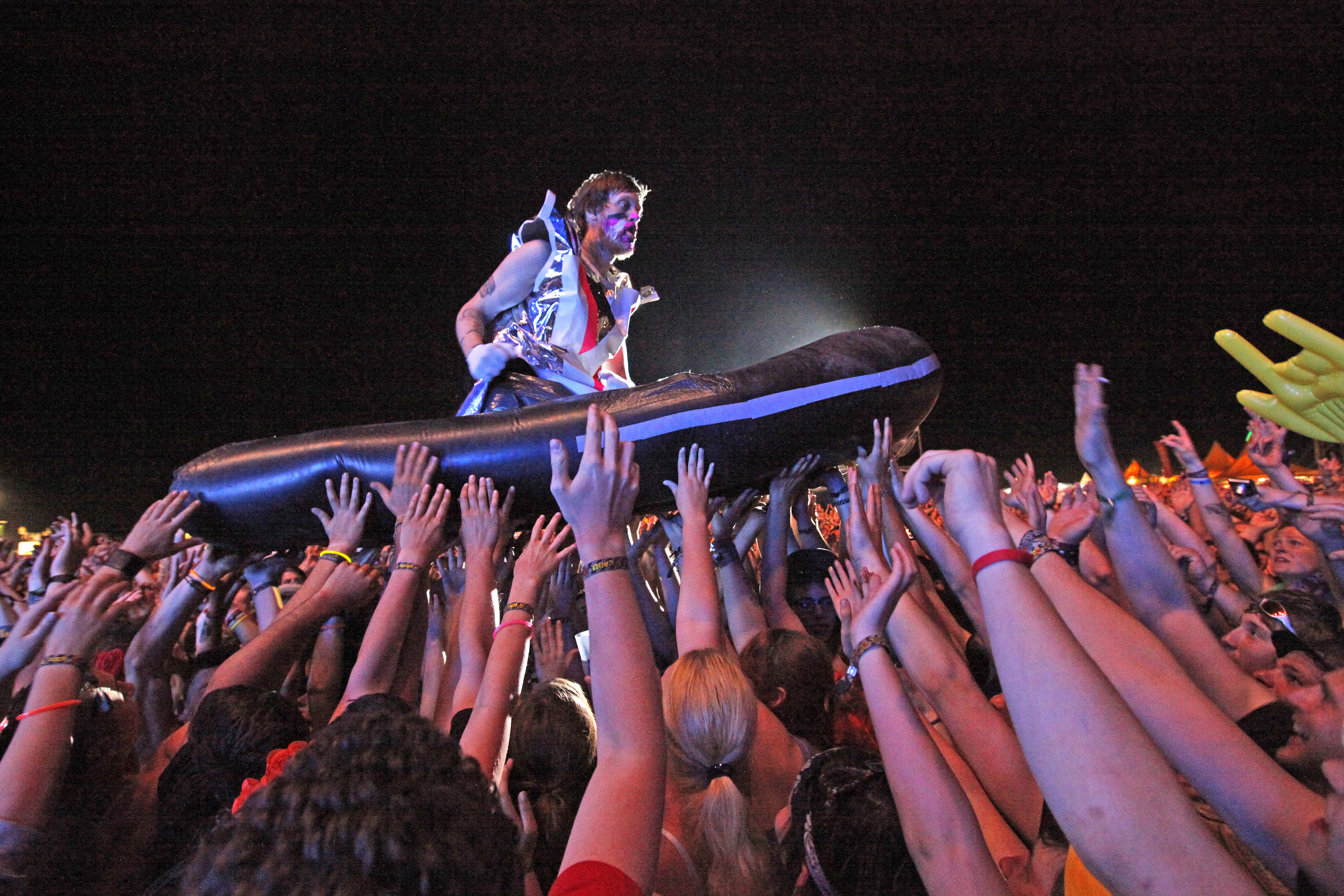 The german band Deichkind from Hamburg at Nova Rock-Festival 2013 next to Nickelsdorf (Austria).